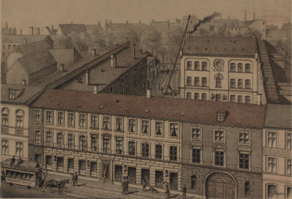 Hassel & Teudts Etablissement in Vredgade in Copenhagen, Denmark